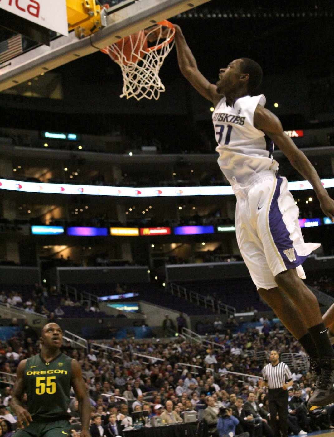 Terrence Ross dunk. (Shotgun Spratling/Neon Tommy)